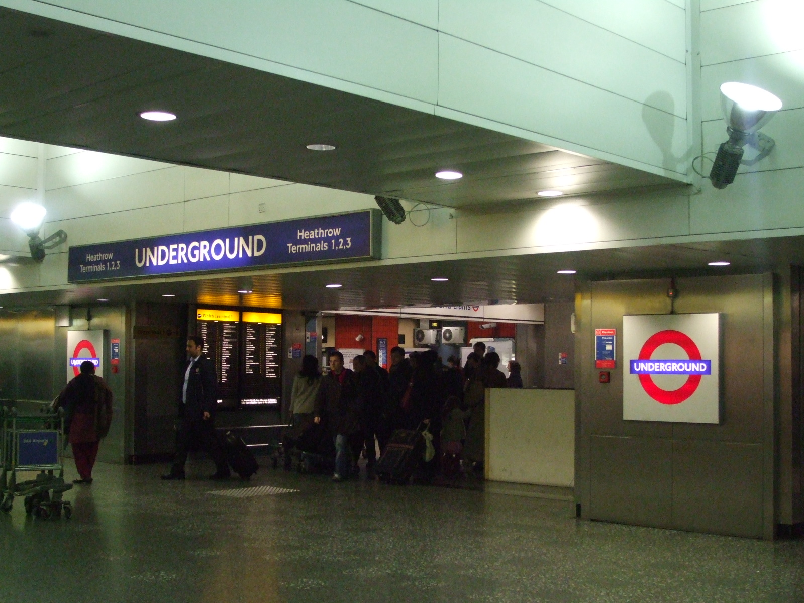 Entrance (below ground) to Heathrow Terminals 1,2,3 tube station